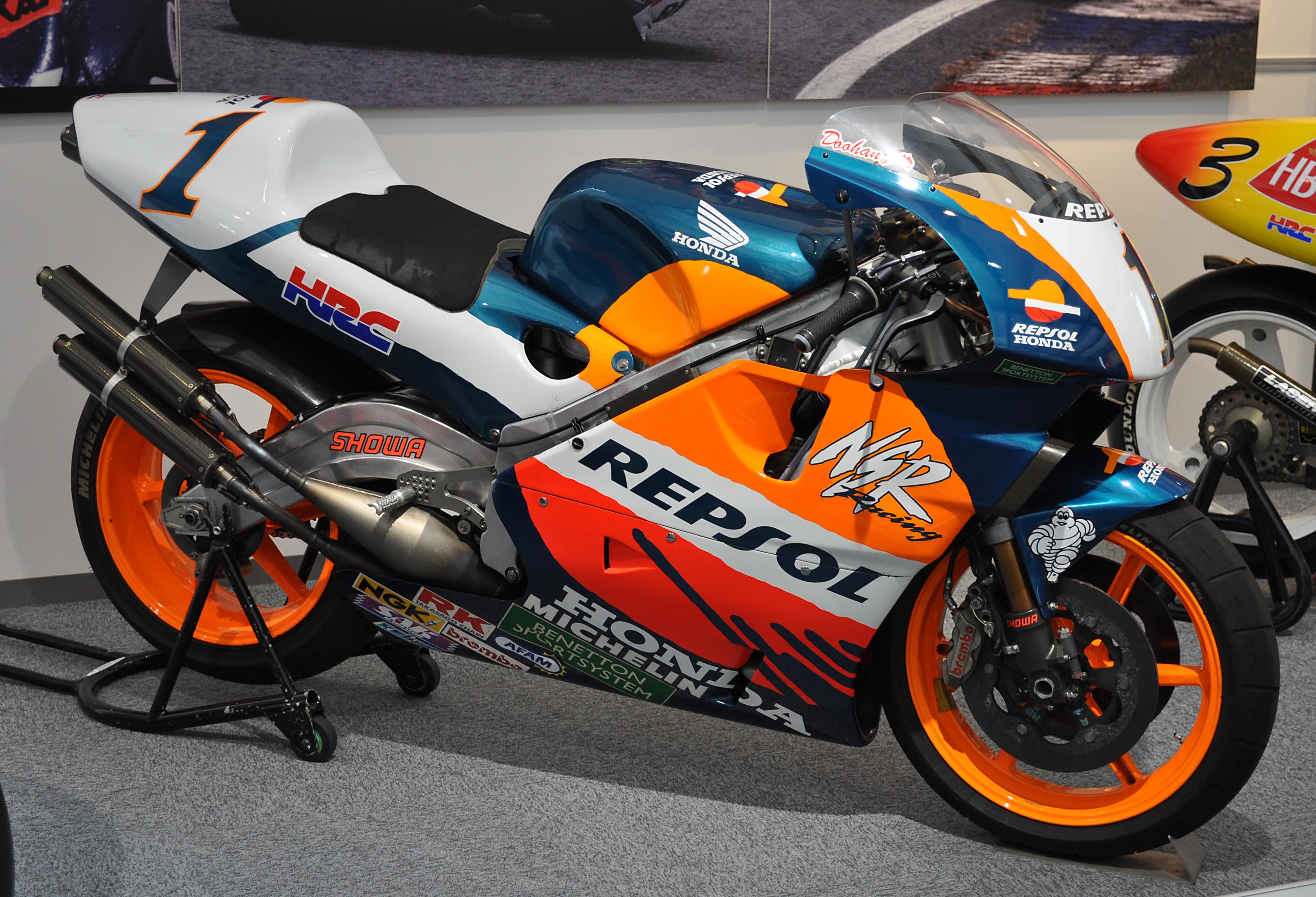 Honda NSR500 (Michael Doohan, 1995)